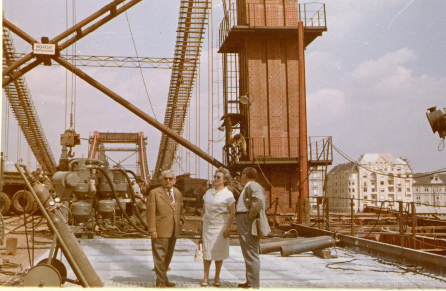 Construction of Elizabeth bridge Budapest